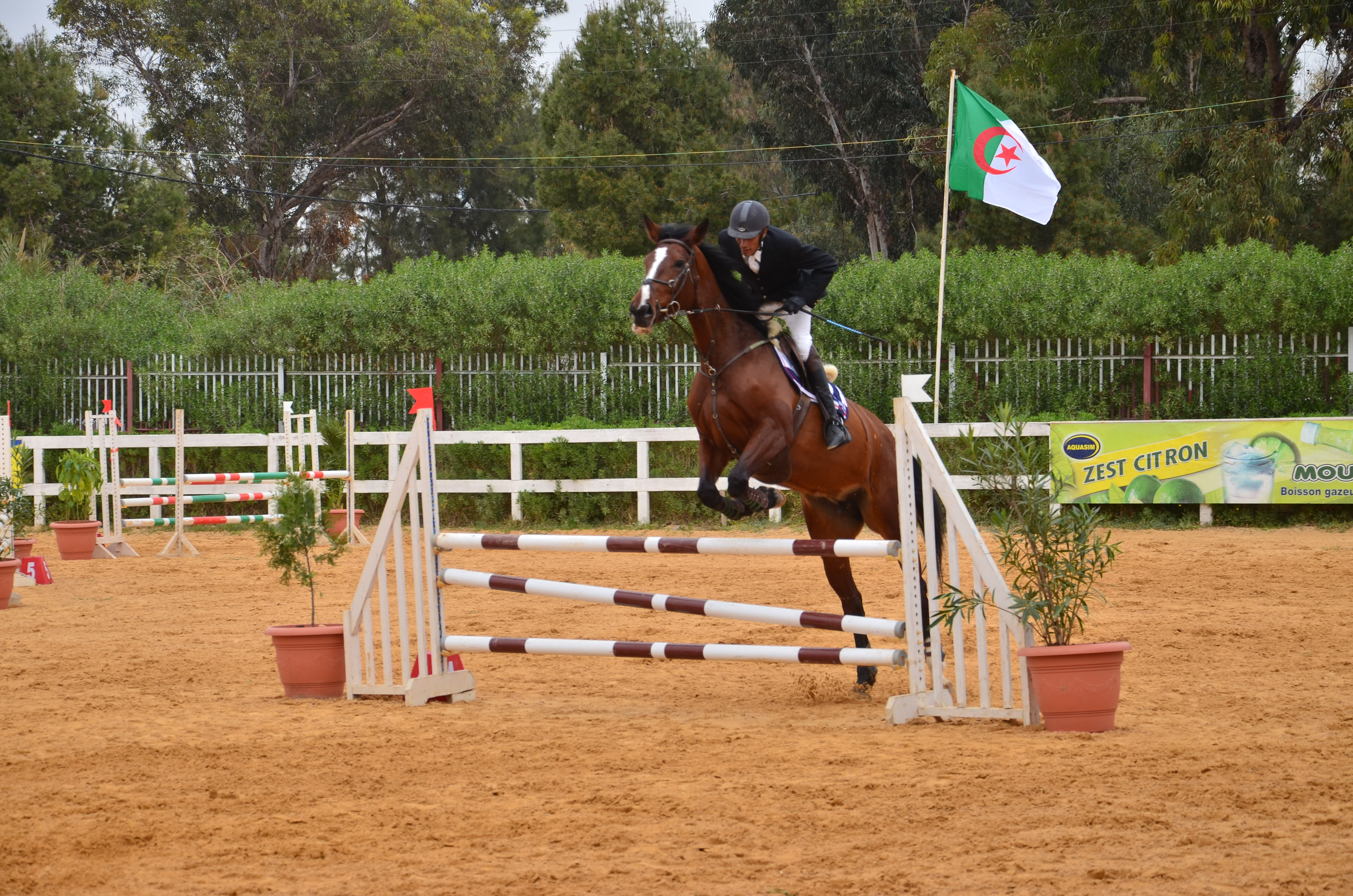 This is an image with the theme "Play" from: Algeria